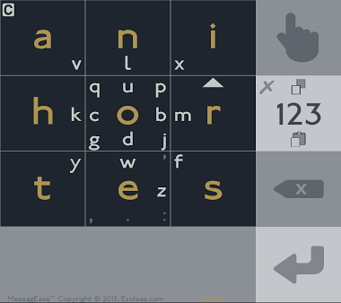 MessagEase keyboard layout 2015